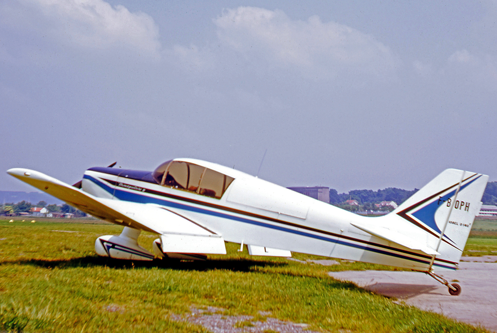 Jodel D.140E F-BOPH at St Cyr airfield near Paris in 1969